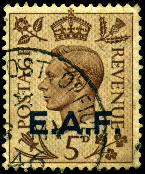 United Kingdom EAF Somalia stamp of 1943